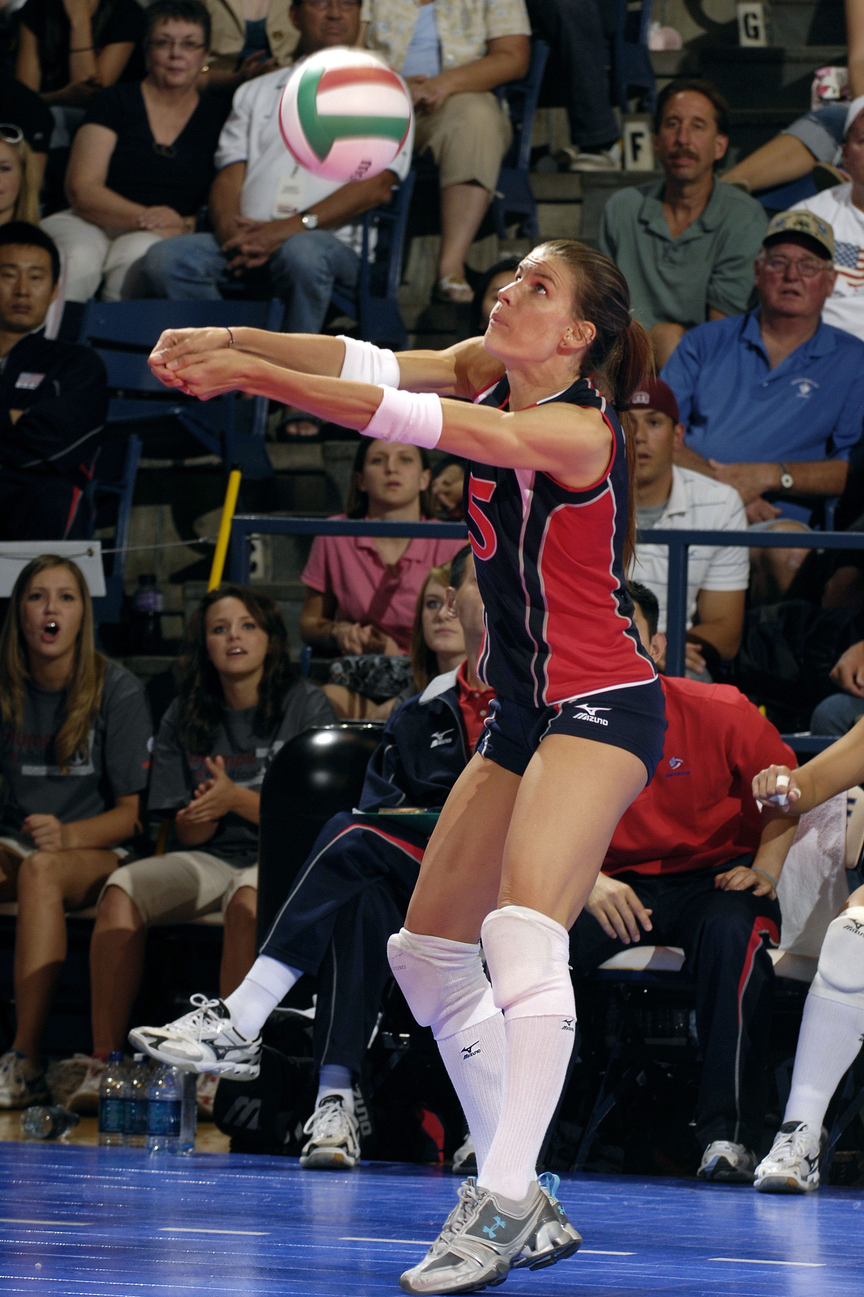 Stacy Sykora, the designated libero for the U.S. Women’s National Volleyball Team, executes a pass during an exhibition match against top-ranked Brazil at Clune Arena on the campus of the U.S. Air Force Academy, Colo., June 14, 2008. Team USA is concluding a three-match 2008 U.S. Olympic Team Exhibition for Volleyball series that started June 11.